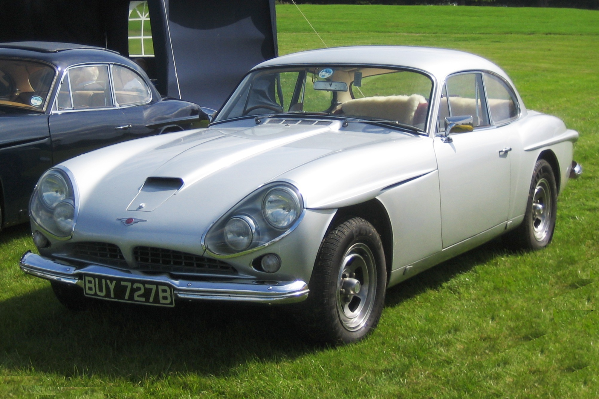 Jensen CV8 at Classic Car Show in Hertfordshire